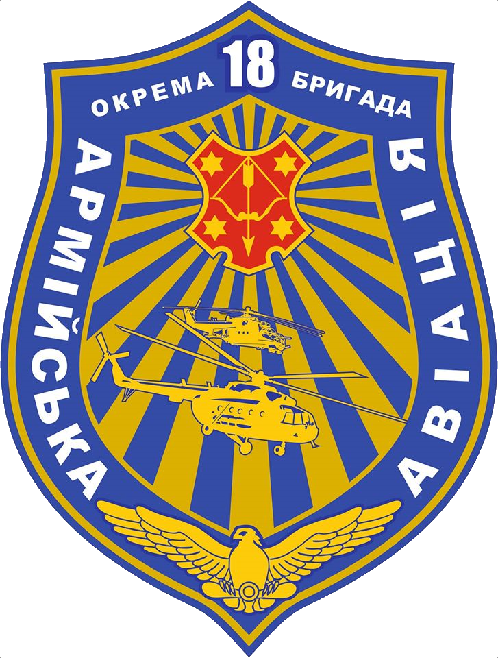 Shoulder sleeve insignia of the Ukrainian Army 18th Aviation Brigade